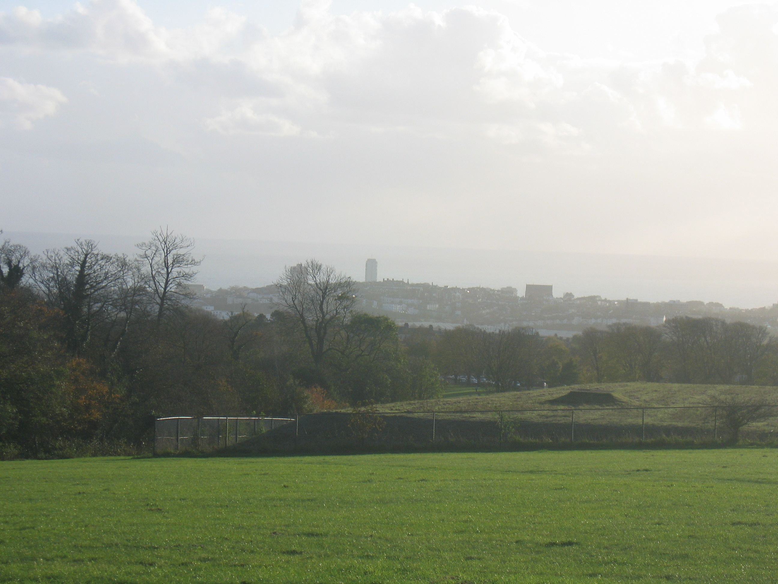 Looking south from the northern end of Hollingbury park showing views over Brighton and the English Channel beyond. Hollingbury woods are in the foreground to the left with the fenced area containing an underground reservoir directly ahead.